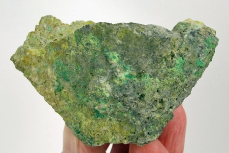 Zálesíit (Size: 8.0 x 5.3 x 4.6 cm) Locality: Zálesí (Zalesie), Javorník (Jauernig), Olomouc Region, Moravia, Czech Republic Zalesiite is a rare hydrated Ca-REE-Cu arsenate approved in 1997 and this rich specimen is from the Type Locality. Patches of forest-green zalesiite microcrystals are scattered on all sides of the matrix. A rich specimen for the locale. Ex. Josef Vajdak Collection, a noted Czech specialist.